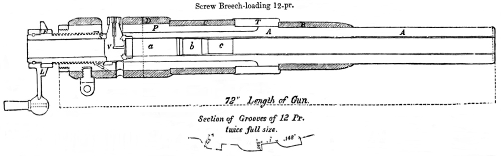 Diagram of barrel and breech of British RBL 12 pounder 8 cwt field gun. This shows the "New Model" with the short 72-inch barrel. A : Barrel inner tube : originally of wrought-iron; made of steel in later 72-inch barrels. B, C, D : wrough-iron coils E : Tappet-ring L : Lever-ring P : Breech-piece : forging of wrought-iron S : Breech-screw T : Trunnion ring V : Vent-piece incorporating a right-angled vent. a : Powder chamber b : Shot chamber c : Grip : narrowing of bore to force lead coating on projectile to engage with rifling grooves